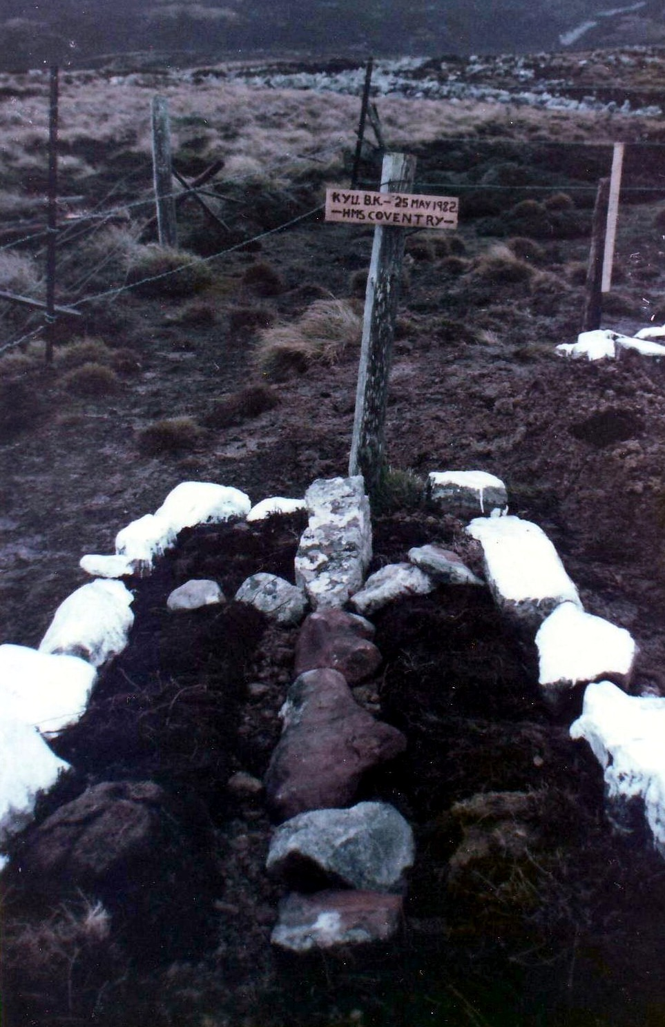 The initial resting place for Laundryman Kye Ben Kwo, HMS Coventry, at Ajax Bay, Falkland Islands.